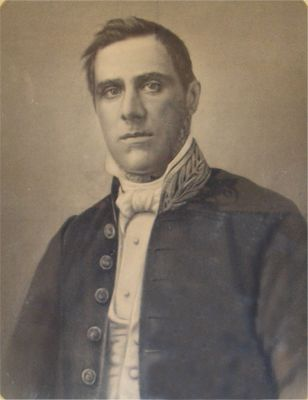 Portrait of Joaquim Heliodoró da Cunha Rivara (1809-1879), Portuguese politician, physician, historian and philologist.